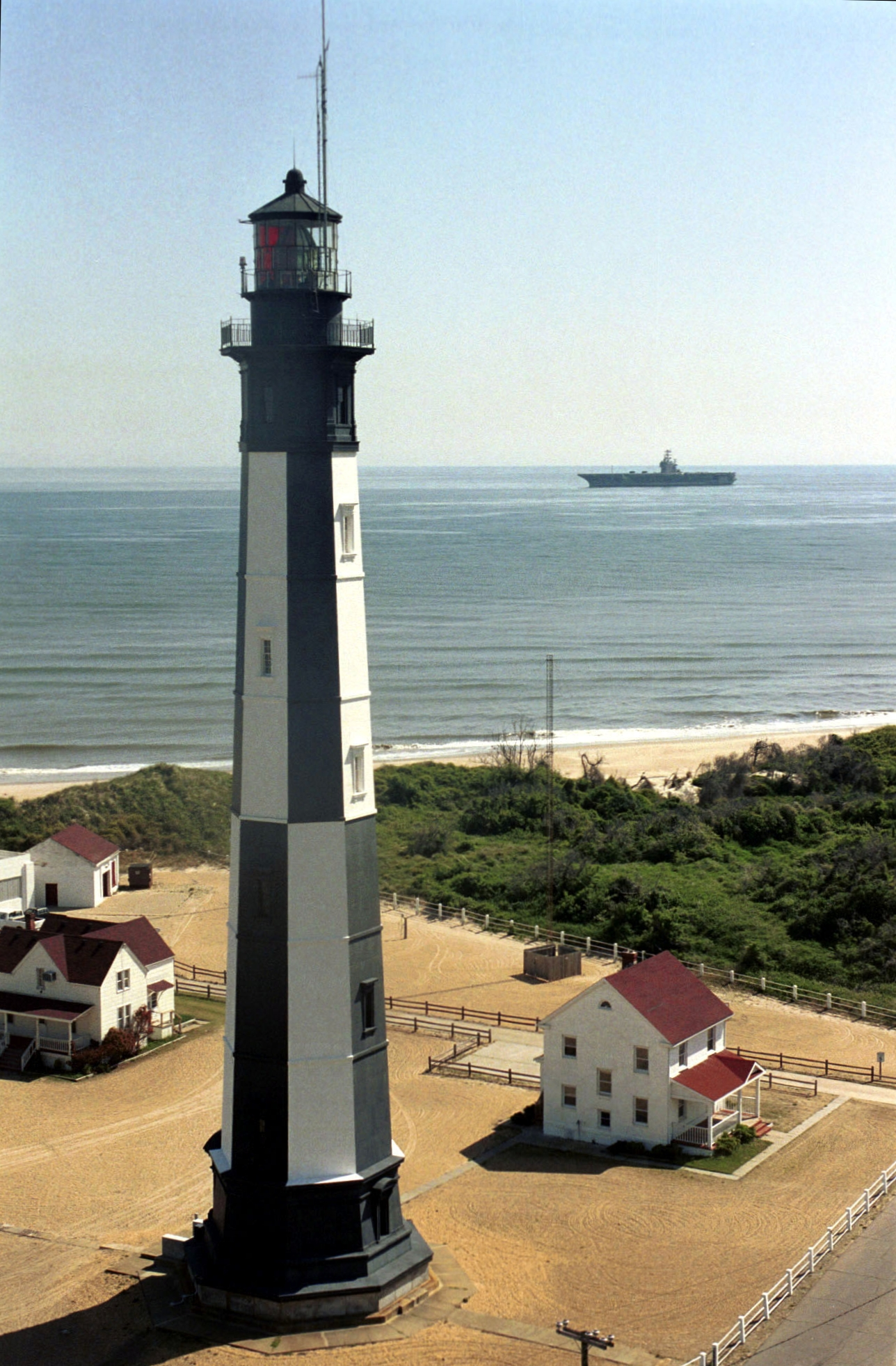 Virginia Beach, Va. (Apr. 30, 2001) — USS Theodore Roosevelt (CVN-71) passes by the Fort Story Lighthouse on the coast of Virginia Beach, Va., after returning from sea trials.